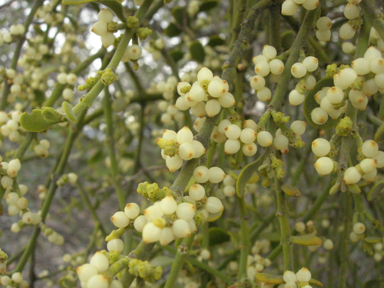 Phoradendron leucarpum (syn. P. villosum; Oak Mistletoe), Agua Dulce, Los Angeles County